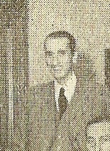 Mario Bénard- autor argentino